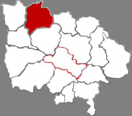 Location of Xi county in Linfen City, China